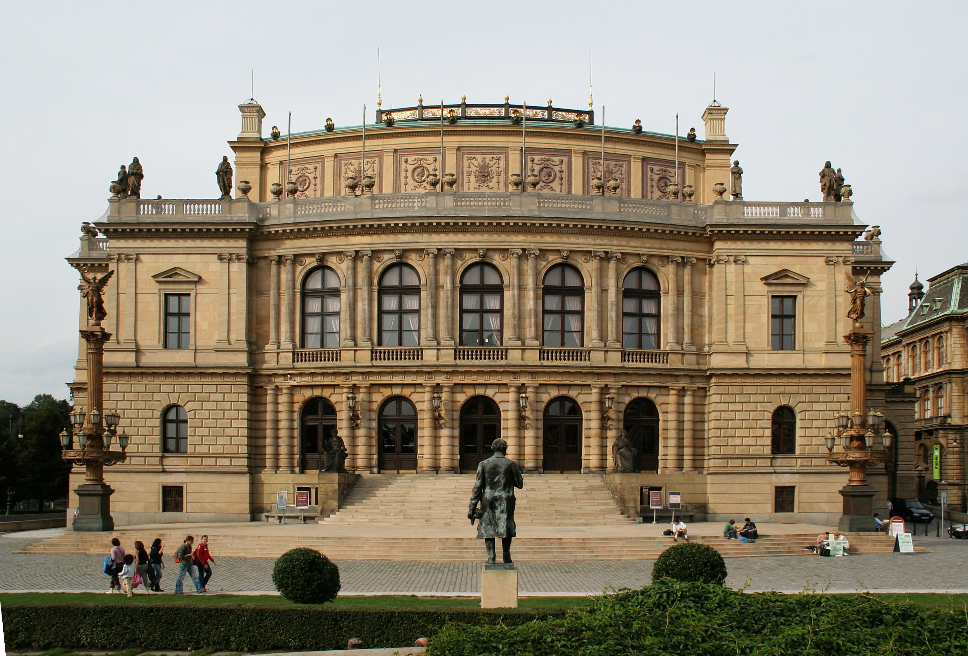 Front view to Rudolfinum in Prague